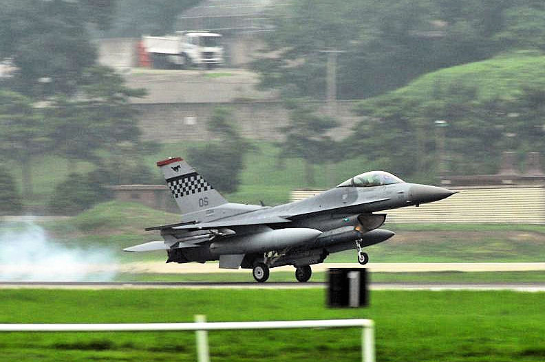 USAF F-16C block 40 #88-0538 from the 36th FS burns some rubber after landing during an operational readiness exercise at Osan AB on July 23rd, 2008. [USAF photo by SrA. Christopher Boitz]